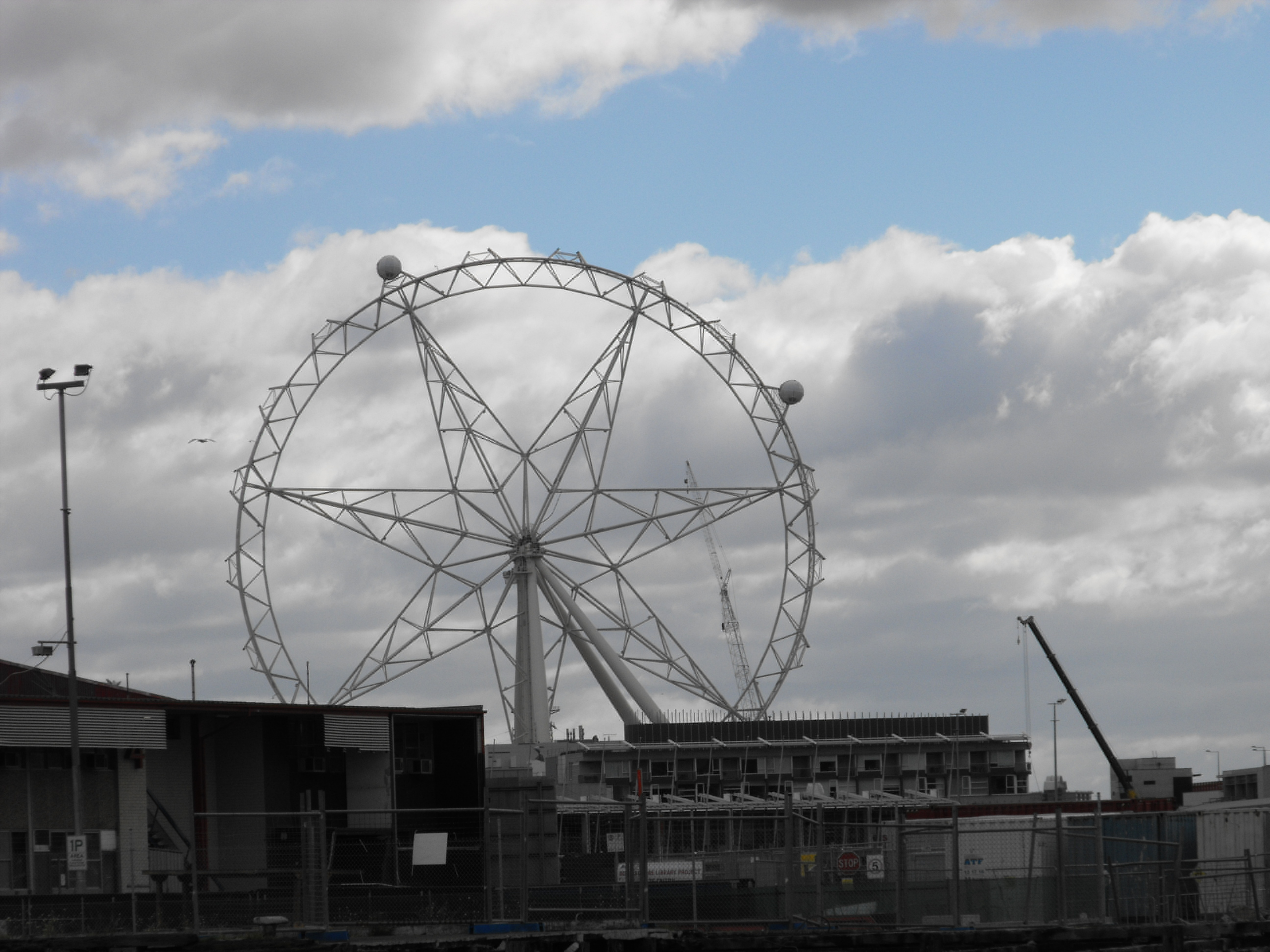 The Melbourne Star ferris wheel undergoing restoration in August 2013